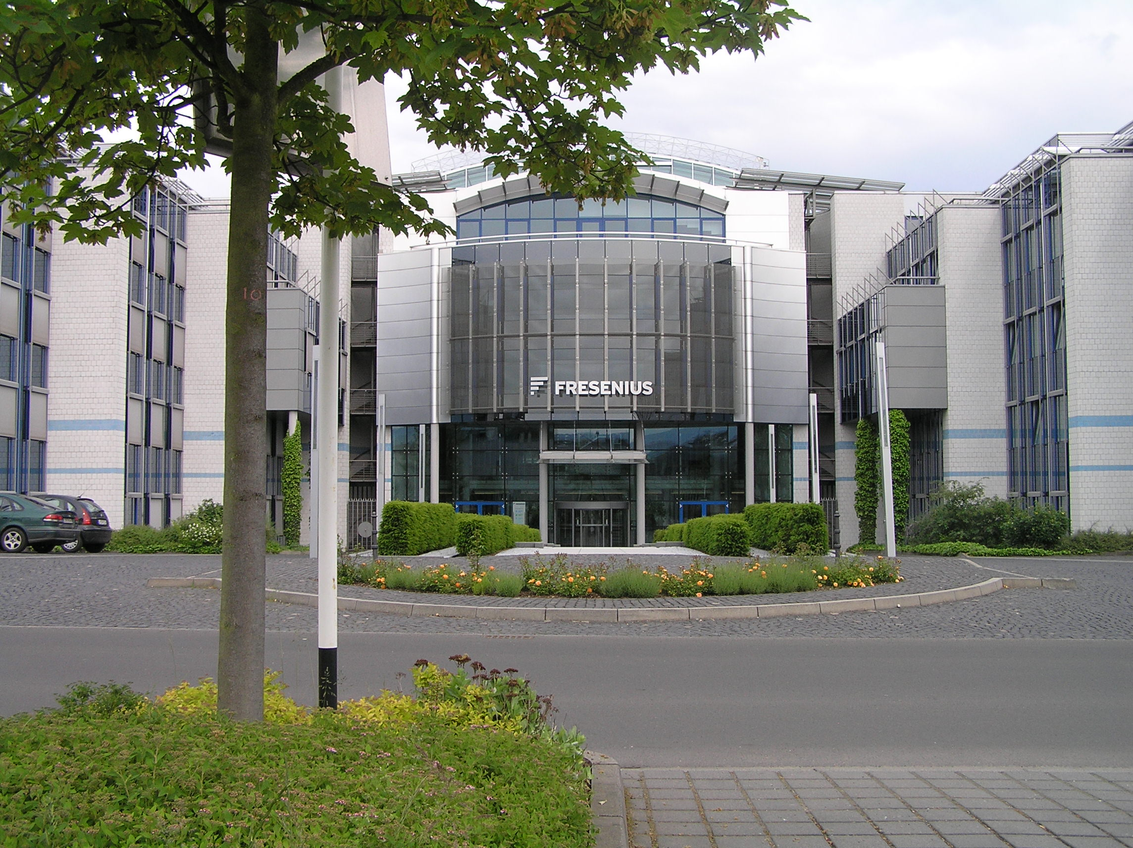 Headquarter of Fresenius SE in Bad Homburg vor der Höhe, Hesse, Germany